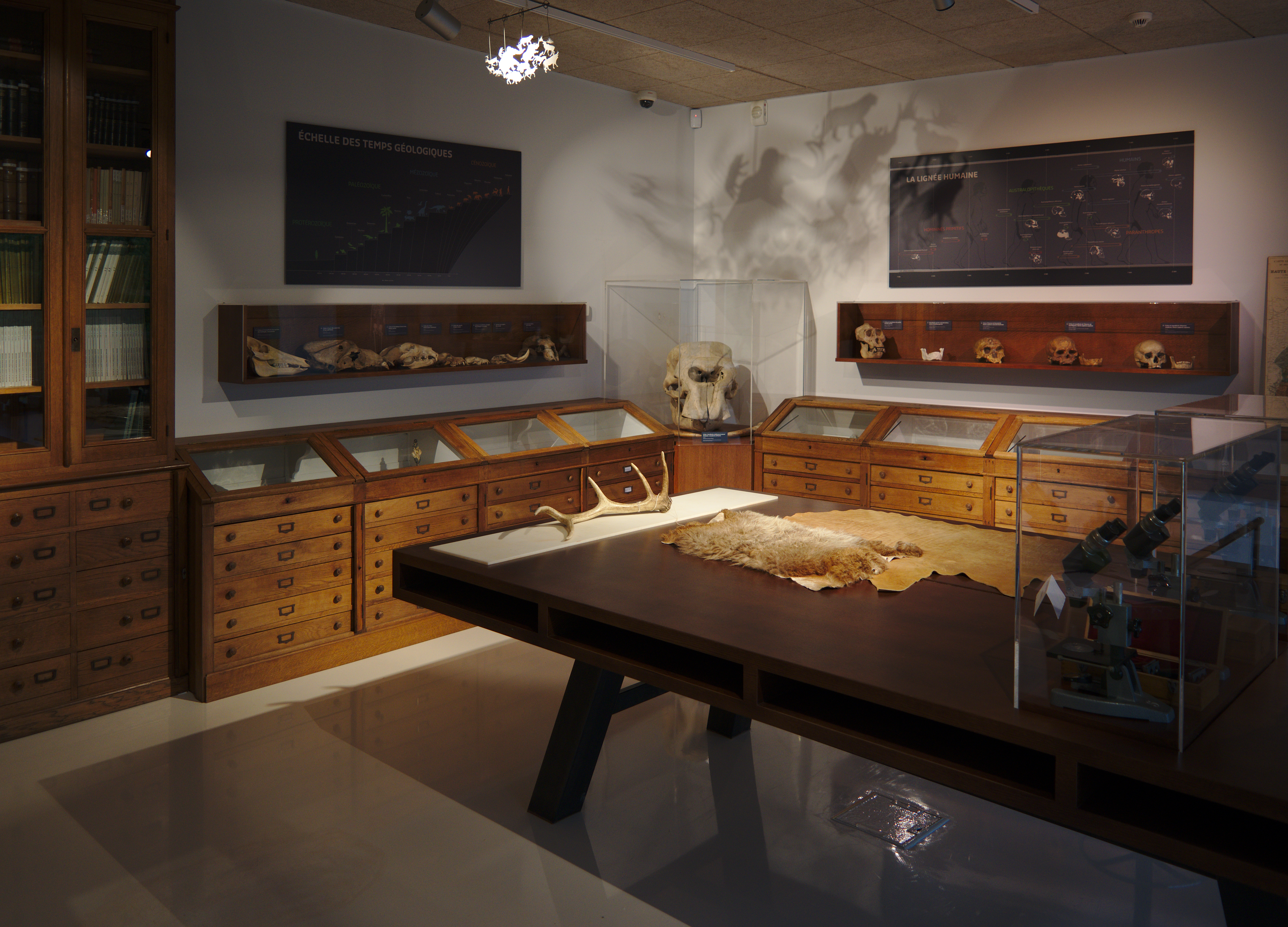 Wood cabinets room, in the musée-forum de l'Aurignacien